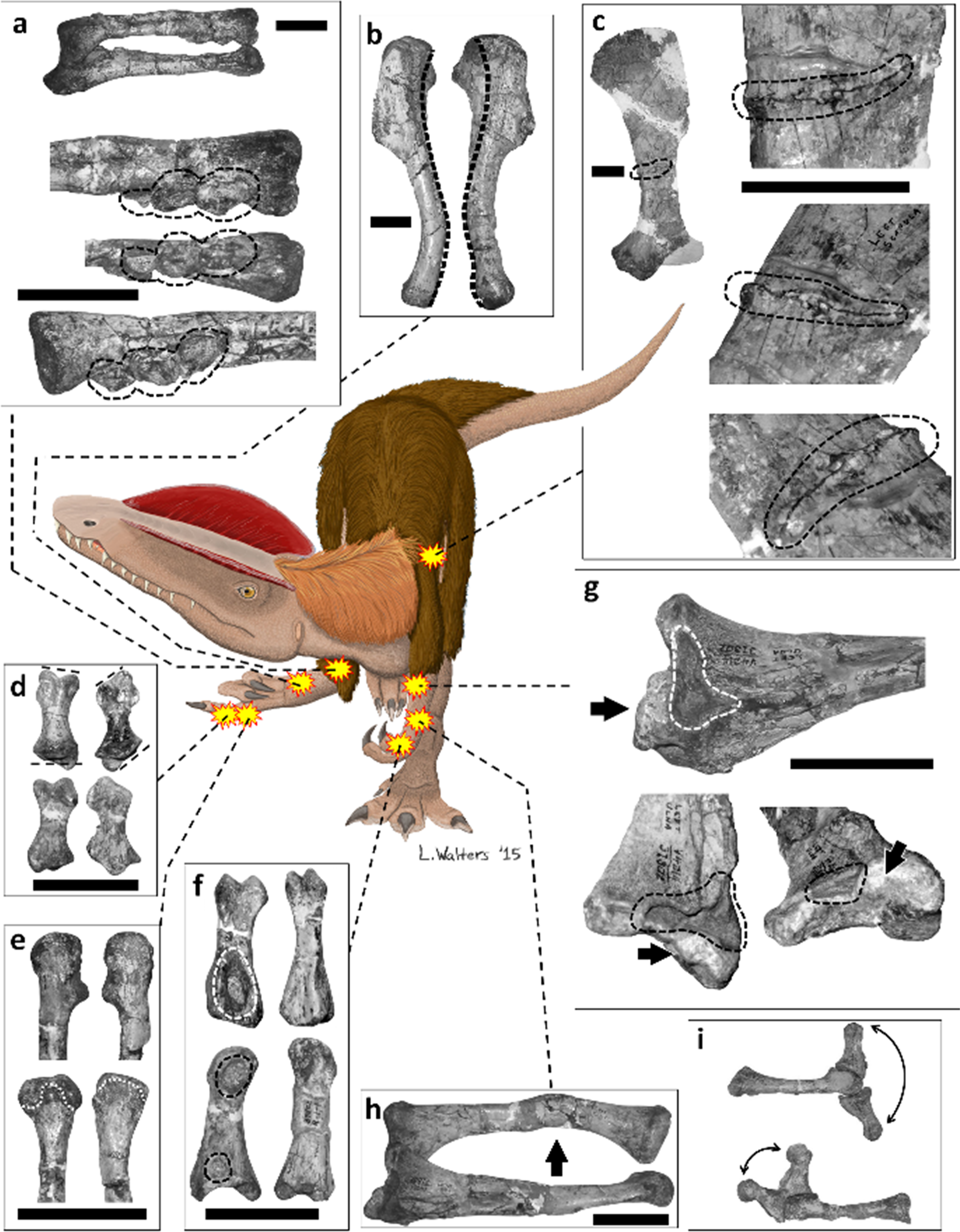 Pathological features in the forelimbs and left scapula of UCMP 37302 (Dilophosaurus wetherilli). (a) Right radius and ulna (above) and enlargements of distal end of radius (below) in (from top to bottom) lateral, abductor, and medial views; broken outline indicates three bony tumors. (b) Left and right humerus (left humerus on left, right humerus on right) in lateral view, each photographed with lateral epicondyle directly facing the viewer, with heavy broken line indicating the midline of the posterior (retractor) surface of each to show the abnormal degree of torsion in the right humerus. (c) Medial surface of left scapula, with broken outline indicating fracture. (d) Left (on left) and right (on right) manual phalanx III-1 in dorsal (top) and palmar (bottom) views, with broken lines indicating plane of articulation with adjacent bones, to show the alteration of this plane in the right-hand phalanx. (e) Distal ends of left (on left) and right (on right) metacarpal III in lateral/abductor view (top) and palmar view (bottom), with broken outline indicating edge of articular surface, to show abnormal truncation of articular surface in right metacarpal III. (f) Left manual phalanx I-1 (on left), with its right-hand counterpart for comparison (on right), in palmar (top) and lateral/abductor (bottom) views, with broken outlines indicating healed fibriscesses. (g) Medial surface of left ulna, with broken outline indicating healed fibriscess and arrow indicating abnormal bony growth. (h) Left radius and ulna in medial view, with arrow indicating healed fracture. (i) Left (top) and right (bottom) metacarpal III and phalanx III-1, with phalanx III-1 in full extension and full flexion, to show the reduced range of motion of this digit in the right hand. Scale bars = 50 mm.